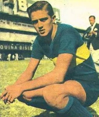 Silvio Marzolini during his run on Boca Juniors.